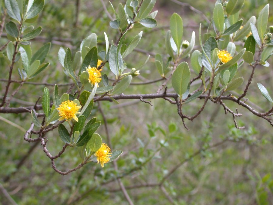 Pineda incana (Salicaceae) from PERU: Cusco: Urubamba Pumahuanca: 400 m upstream of town. Vouchers at BH, HUT.